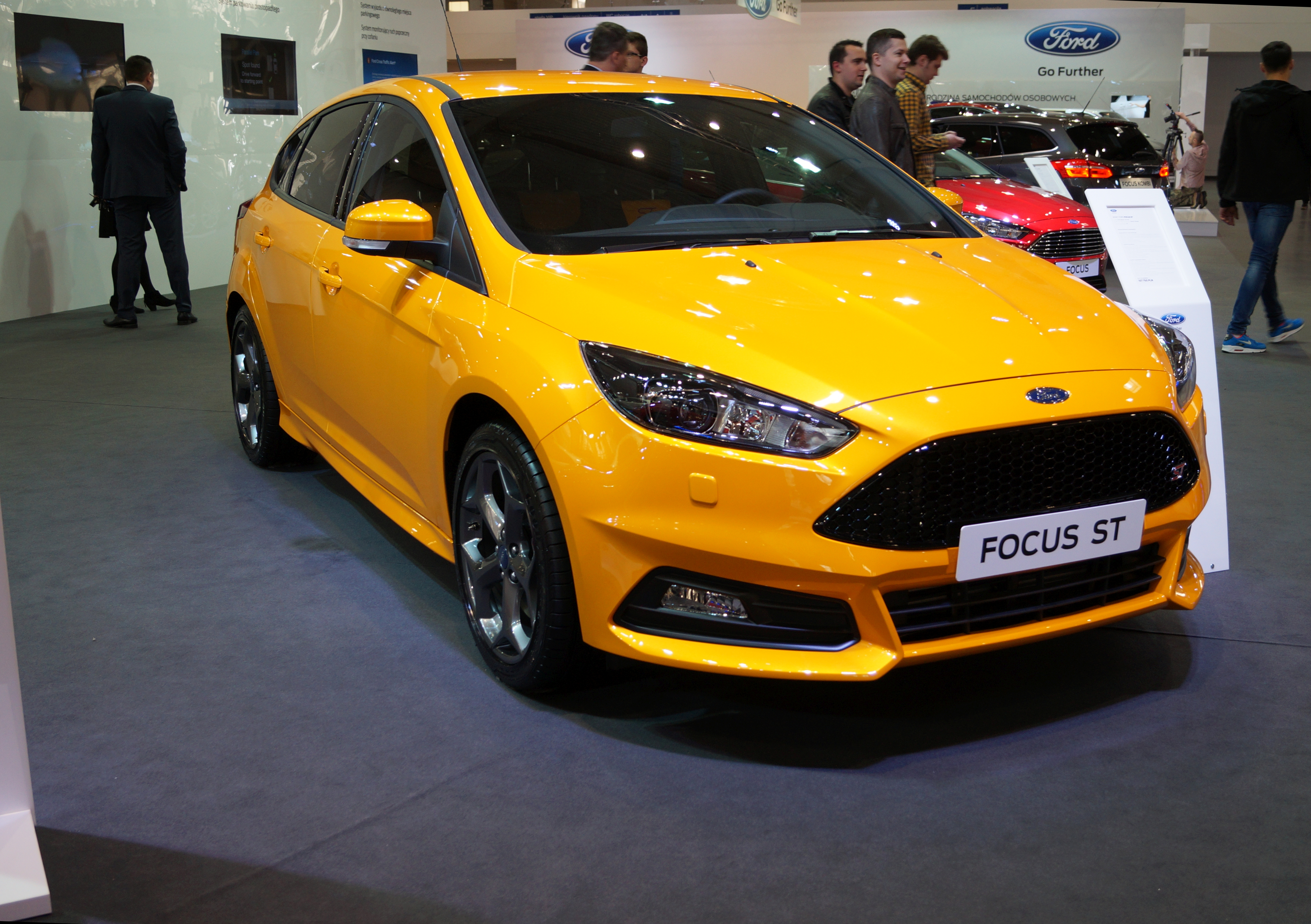 The making of this document was supported by Wikimedia Polska Association, within Wikigrant no. WG 2015-19. Przód Forda Focusa ST na Motor Show Poznań 2015